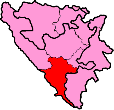 The second electoral unit of the Federation of Bosnia and Herzegovina (HoRBiH) shown within Bosnia and Herzegovina.